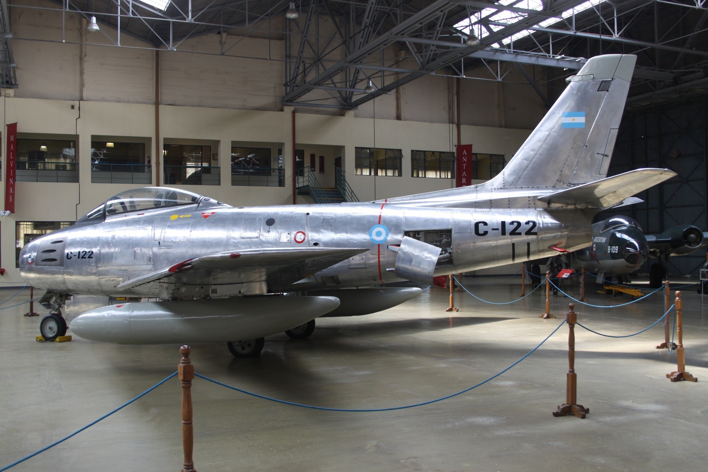 At Moron Museo Nactional De Aeronautica